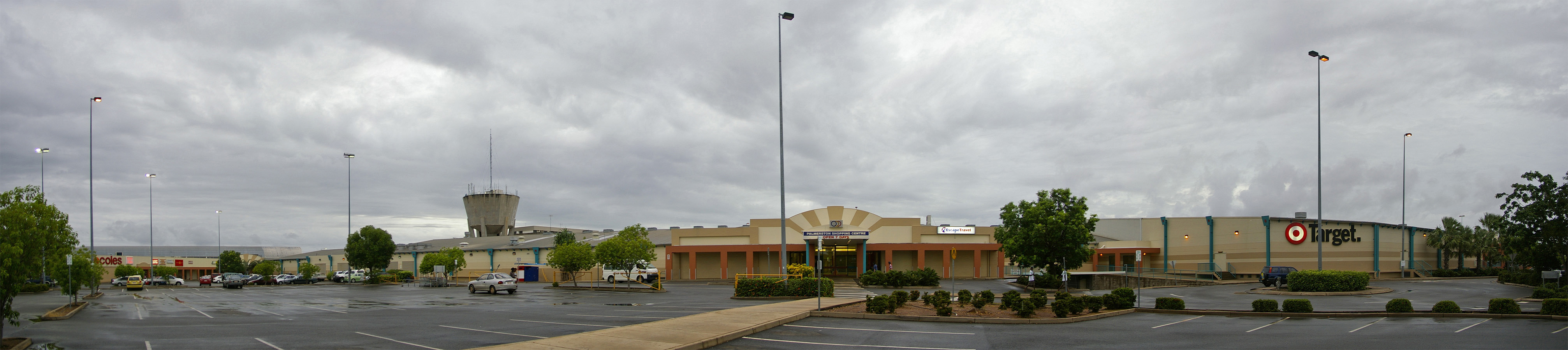 Palmerston Shopping Centre located at Palmerston, Northern Territory.